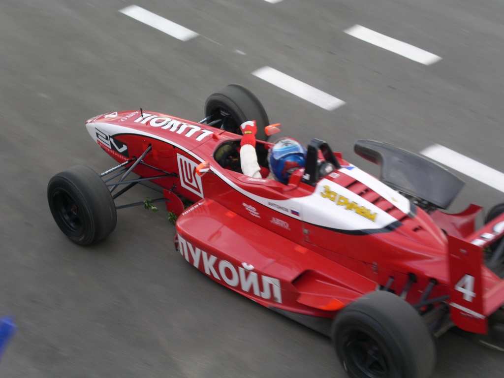 Lukoil Racing Team driver Michael Antonov - Formula F1600 - Autodrom Moscow. Lost his front aerodynamical spoiler and pitted.